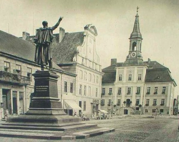 Sovetsk (before 1945 Tilsit)